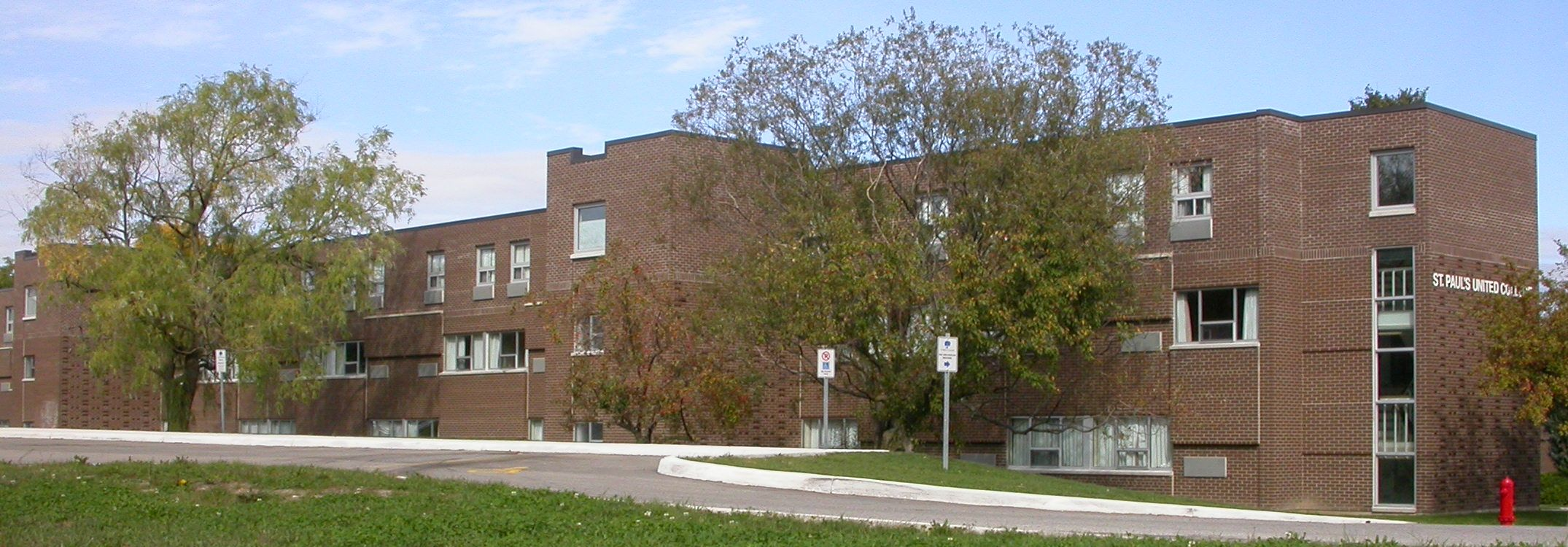 St. Paul's United College, Waterloo. Photograph taken October 8, 2005. Copyright 2005, James Yolkowski (User:JYolkowski).